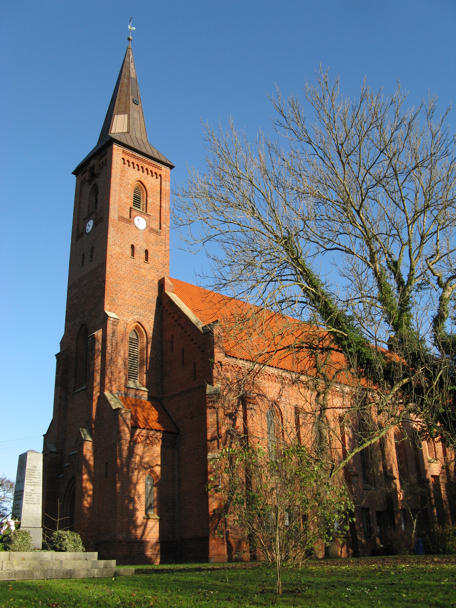 Church in Wittenförden, Mecklenburg-Vorpommern, Germany